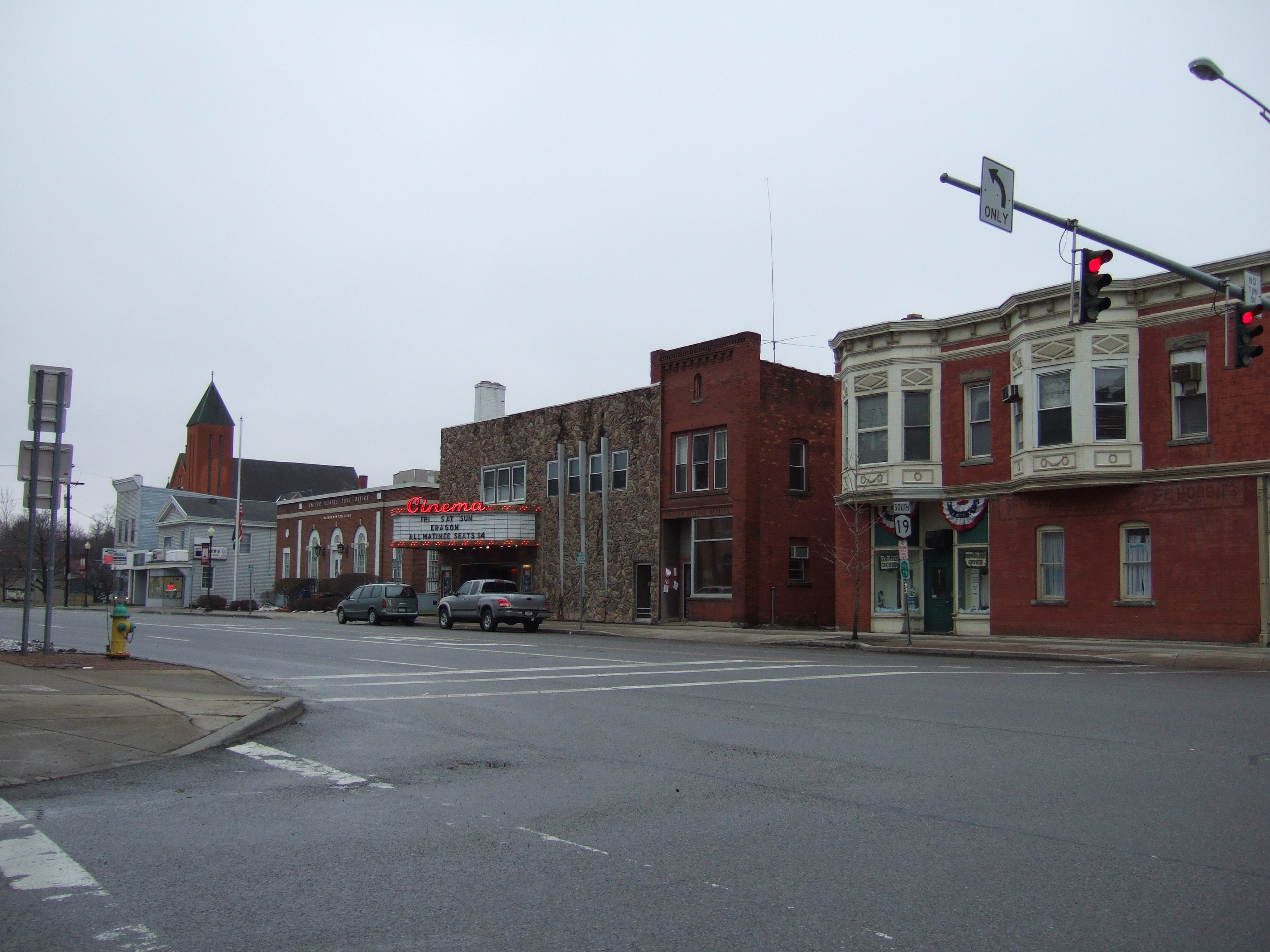 Warsaw, New York